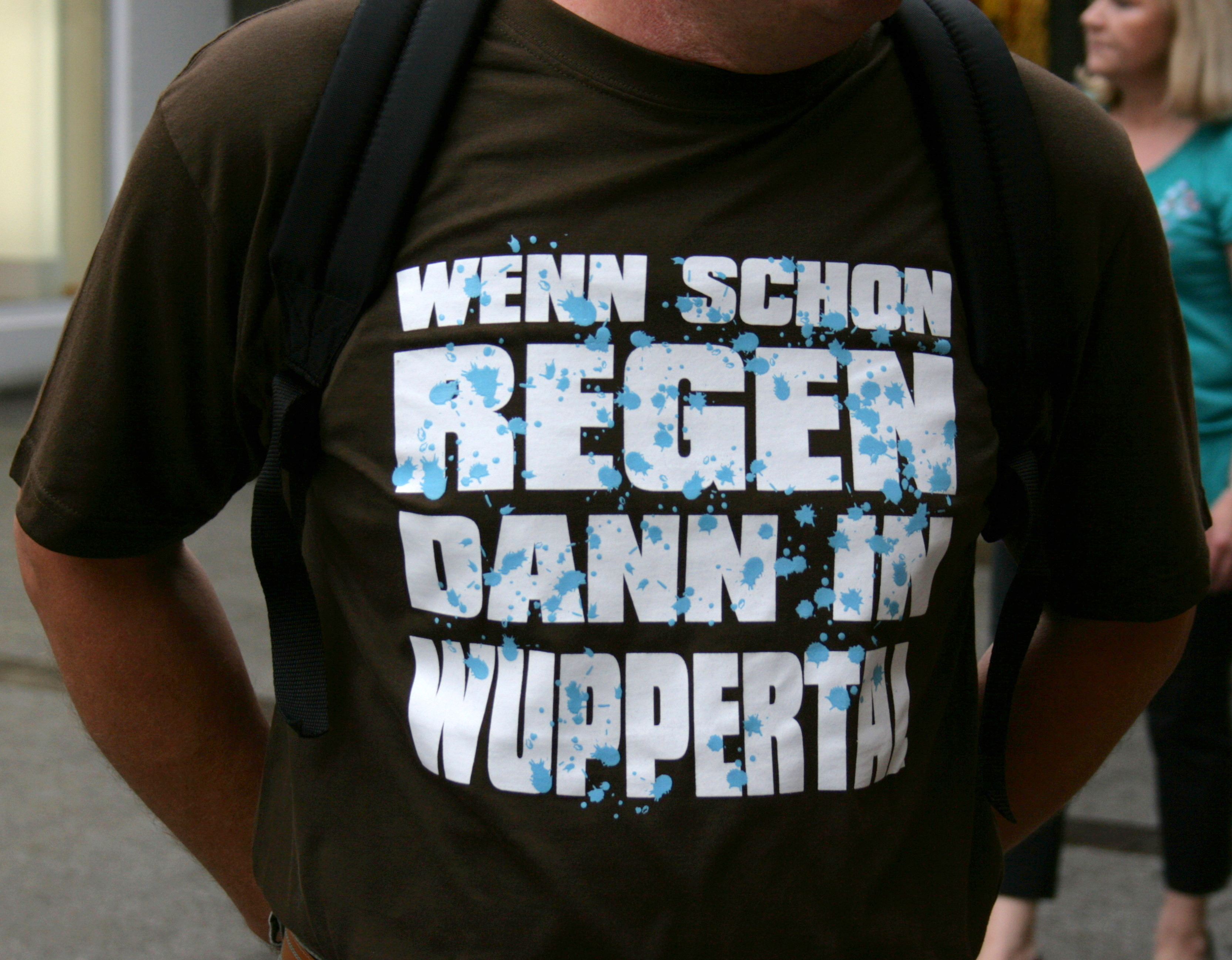 Langer Tisch (en: long table), a 14 km long street fair in Wuppertal celebrating Wuppertal's 80th “birthday” in 2009